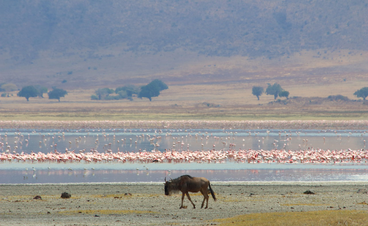 Basin of Ngorongo LakeEesti: Ngorongo järve nõgu